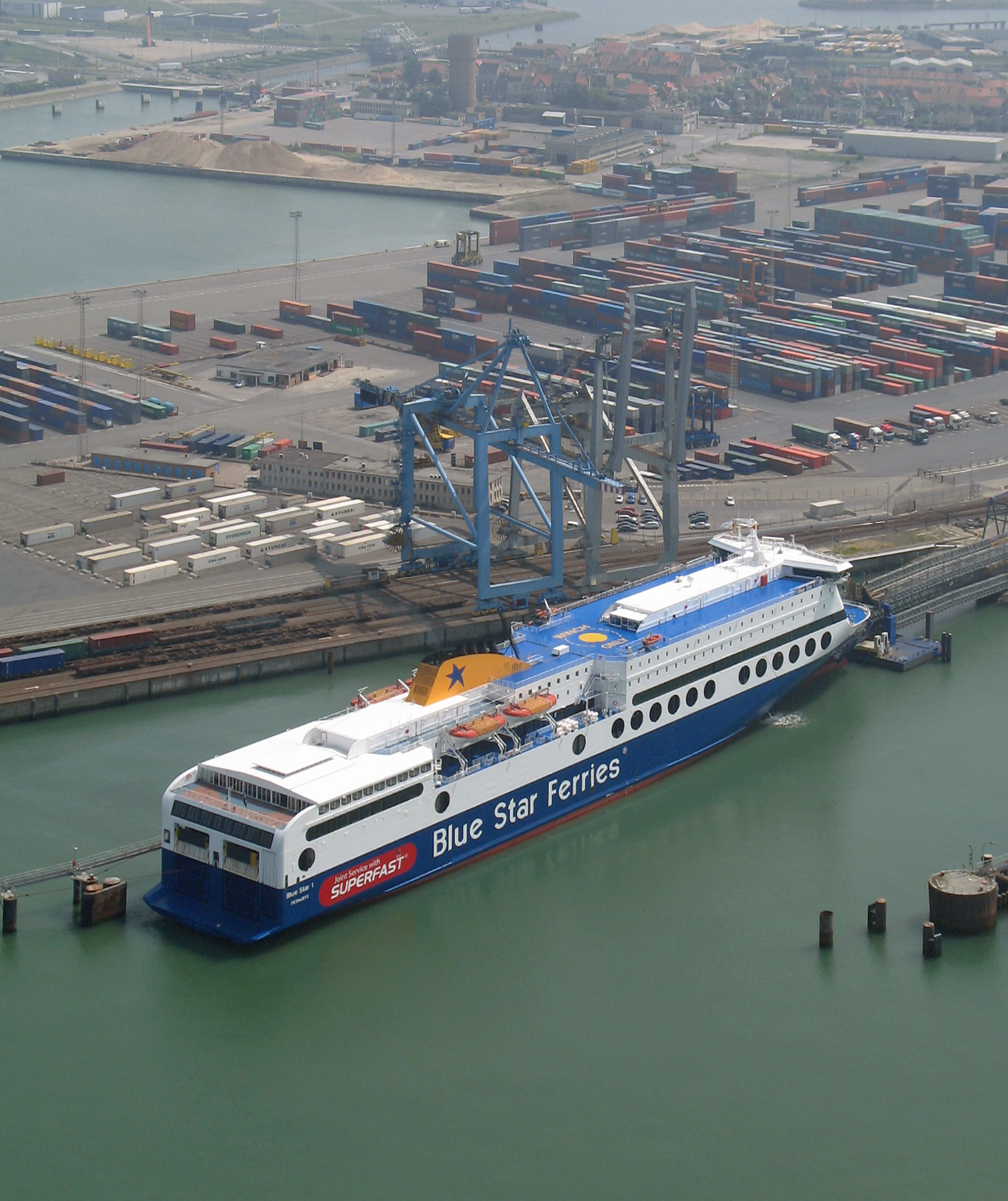 The ship Blue Star 1 of the Greek company Blue Star Ferries in the port of Zeebrugge (Belgium)